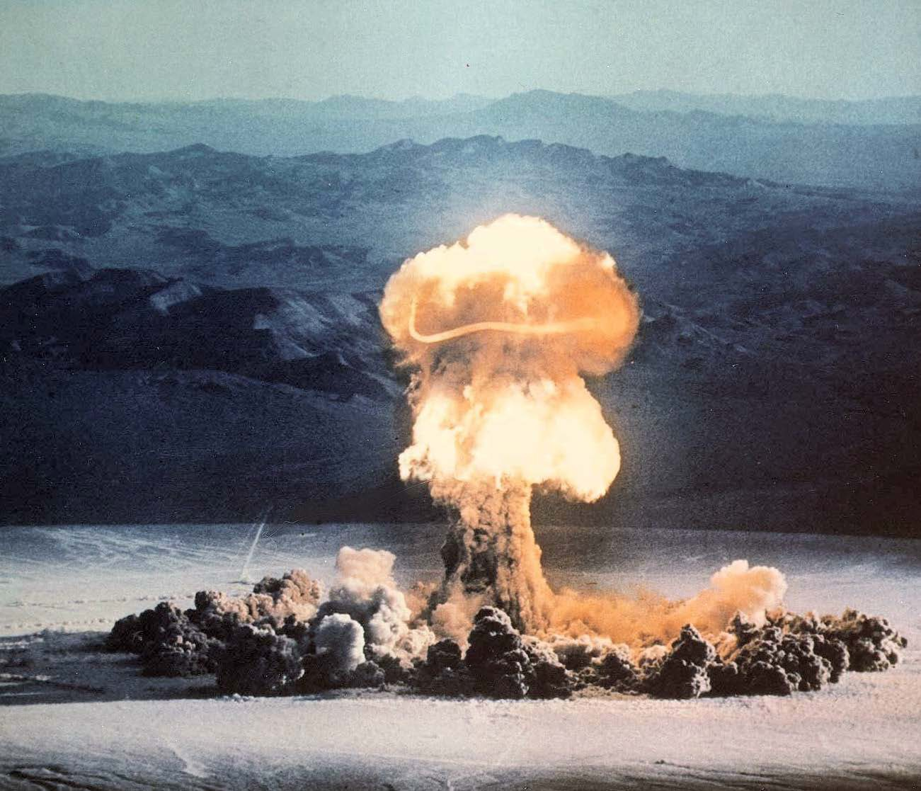 The PRISCILLA Event, conducted at the Nevada Test Site, June 24, 1957, was a 37 kiloton device exploded from a balloon.